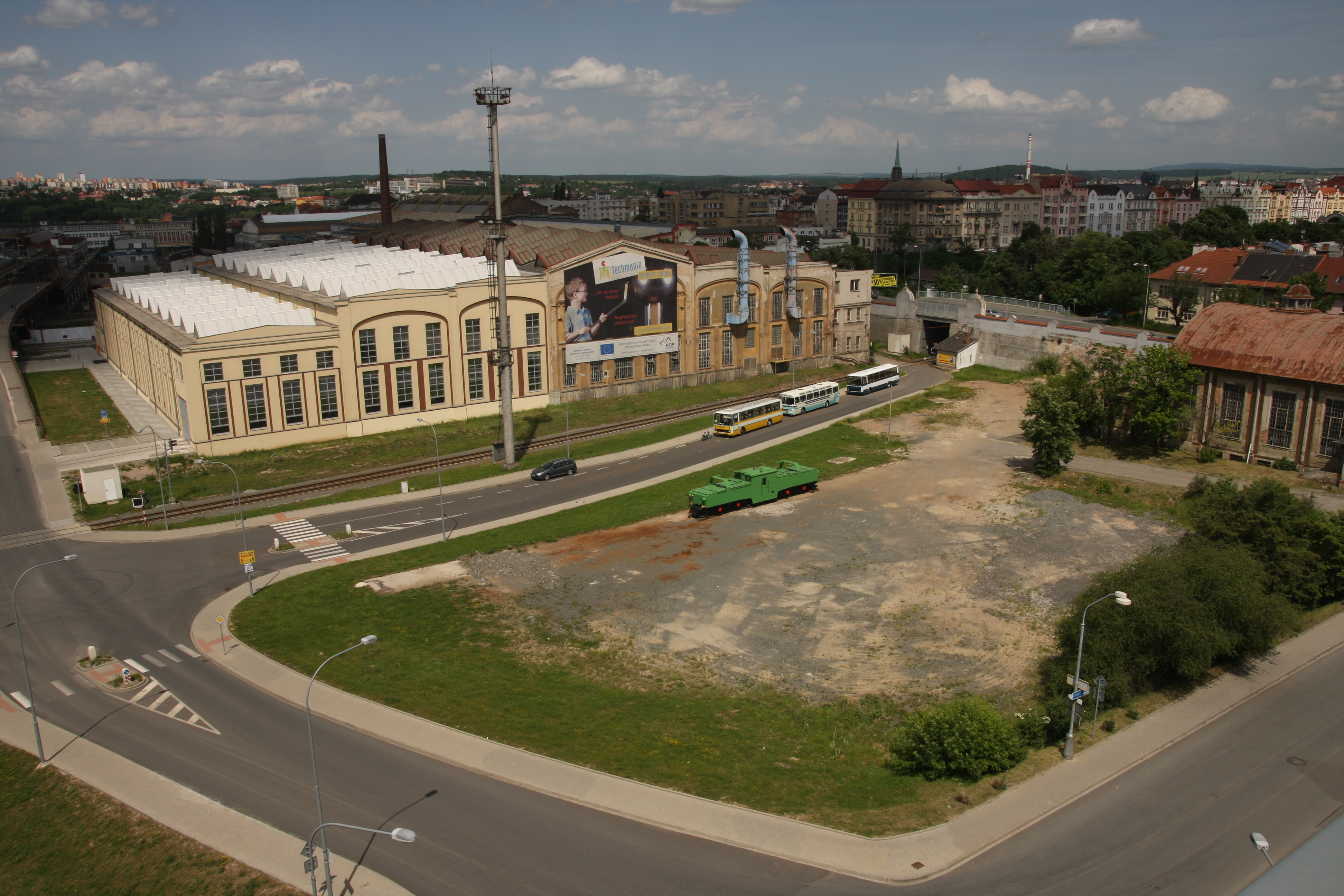 Techmania Science Center in Pilsen,Czech Republic